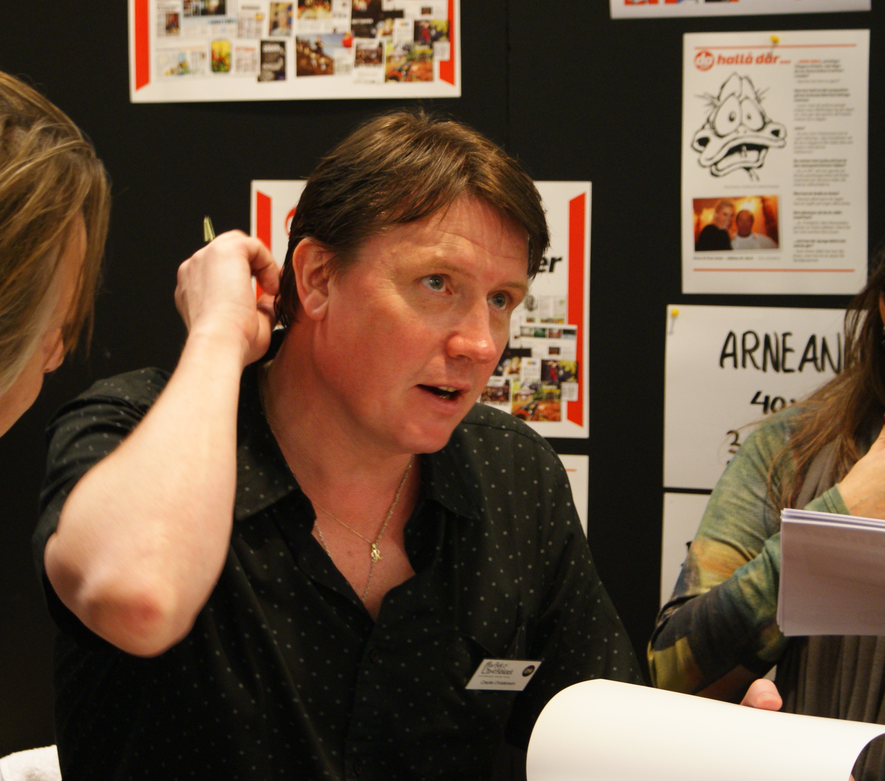 At the bookfair in Gothenburg 2009.